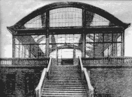 Pavilion of the Museum of Cinema, Odessa